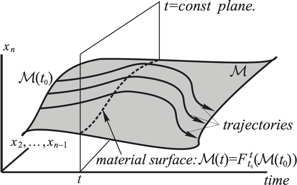 An invariant manifold in the extended phase space of a dynamical system, with its time slices forming material surfaces.